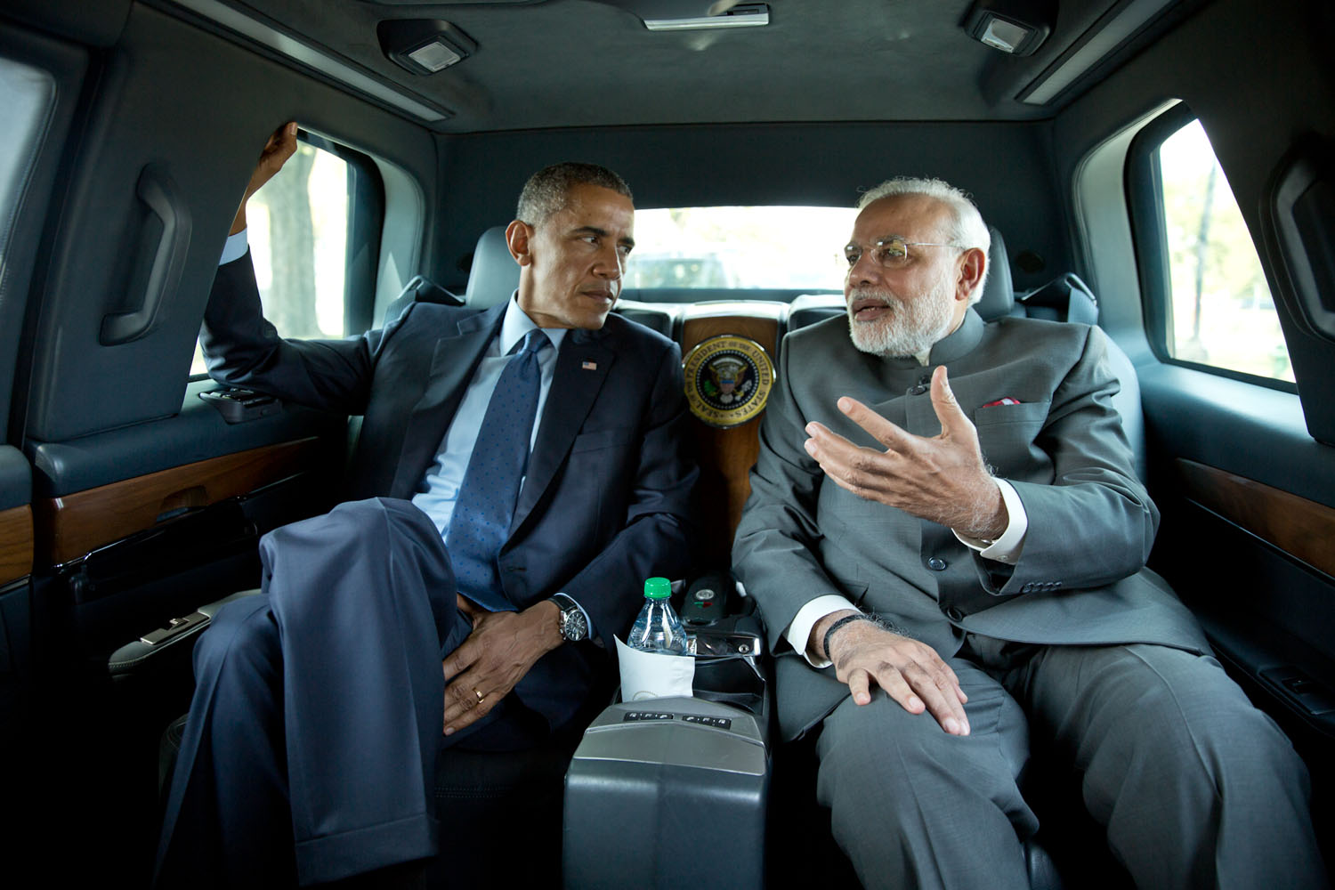 President Barack Obama and Prime Minister Narendra Modi of India en-route to the Martin Luther King, Jr. memorial on the National Mall in Washington, D.C., Sept. 30, 2014.